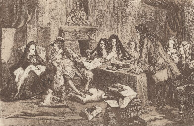 Madame Maintenon in Conferance